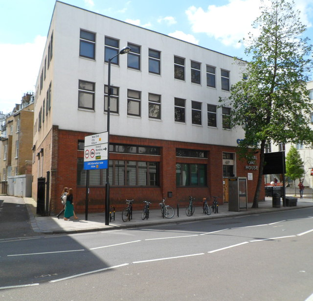 Metropole College, London W2